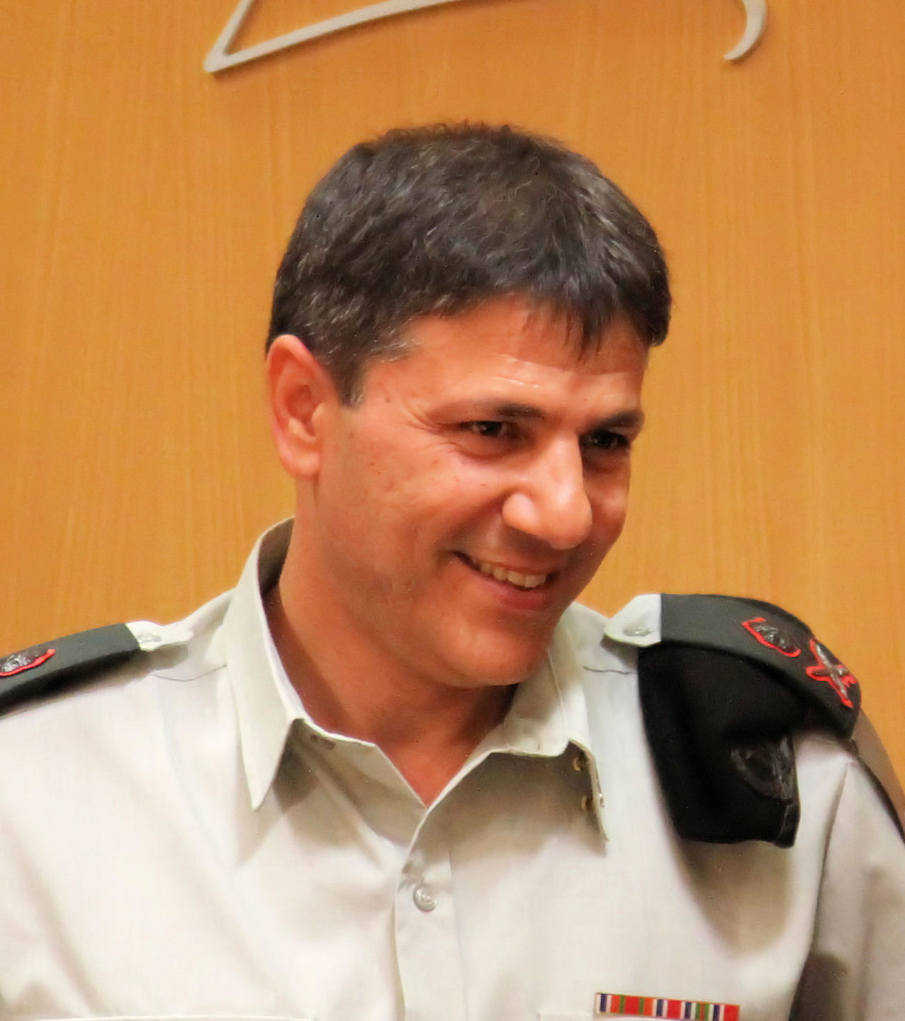 Yaakov Ayish